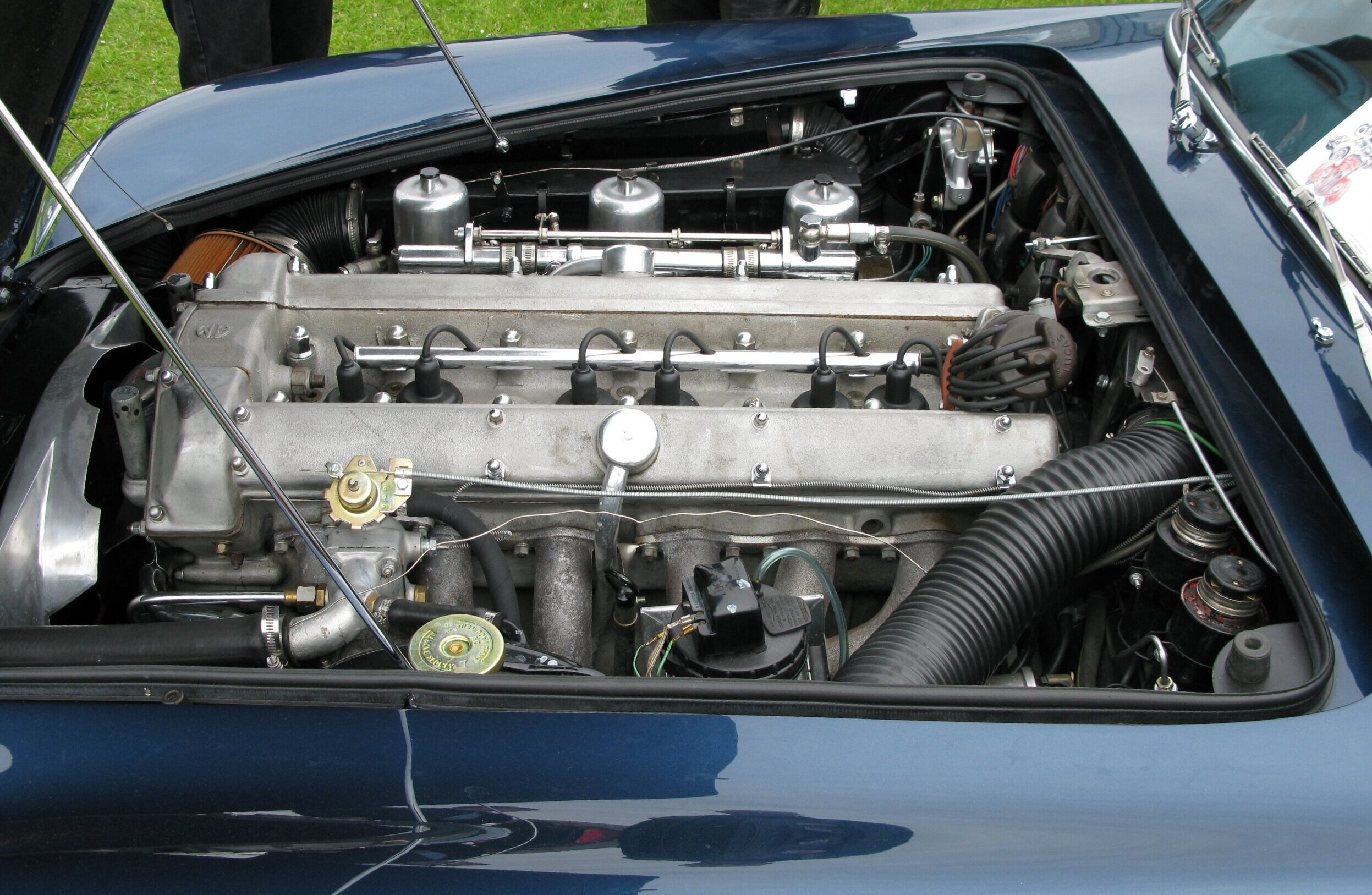 Tadek Marek’s big inline six cylinder engine with twin cams and three SU carbs.Event: Tjolöholm Classic Motor 2009